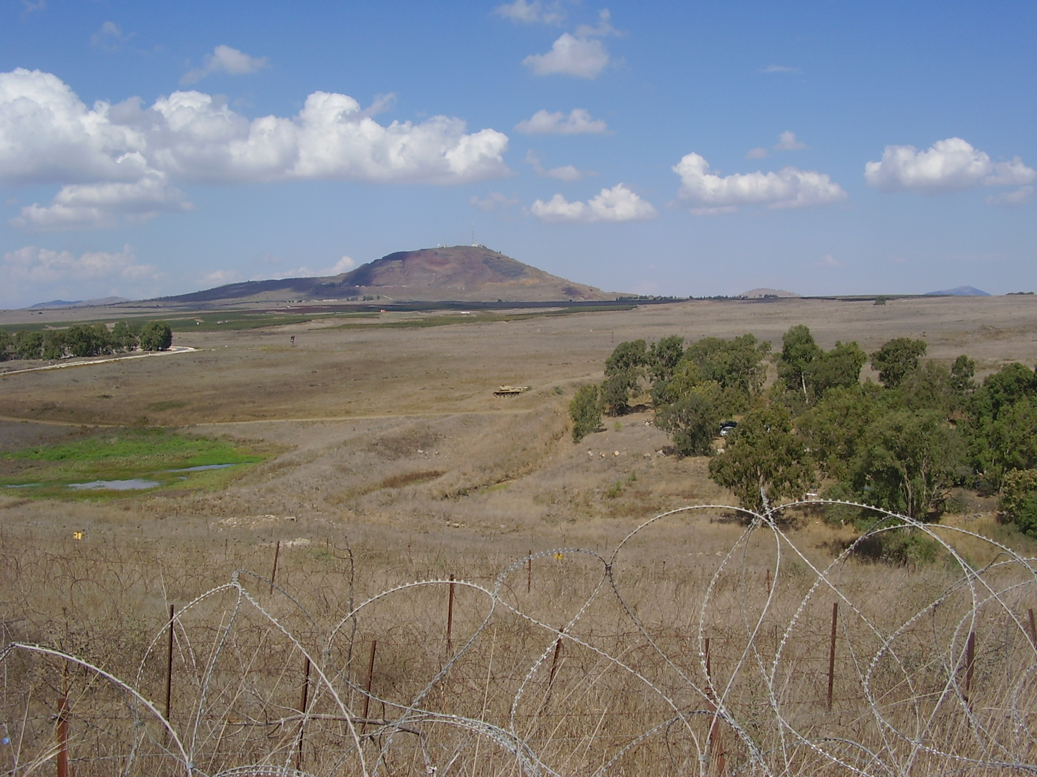 view from tel juhader on mount peres מבט מתל ג'וחדר על הר פרס